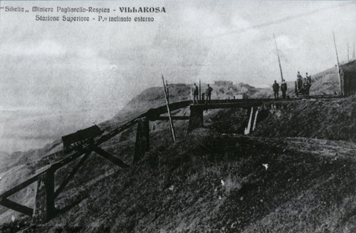 Miniera Respica-Pagliarello (Villarosa) (2).jpg